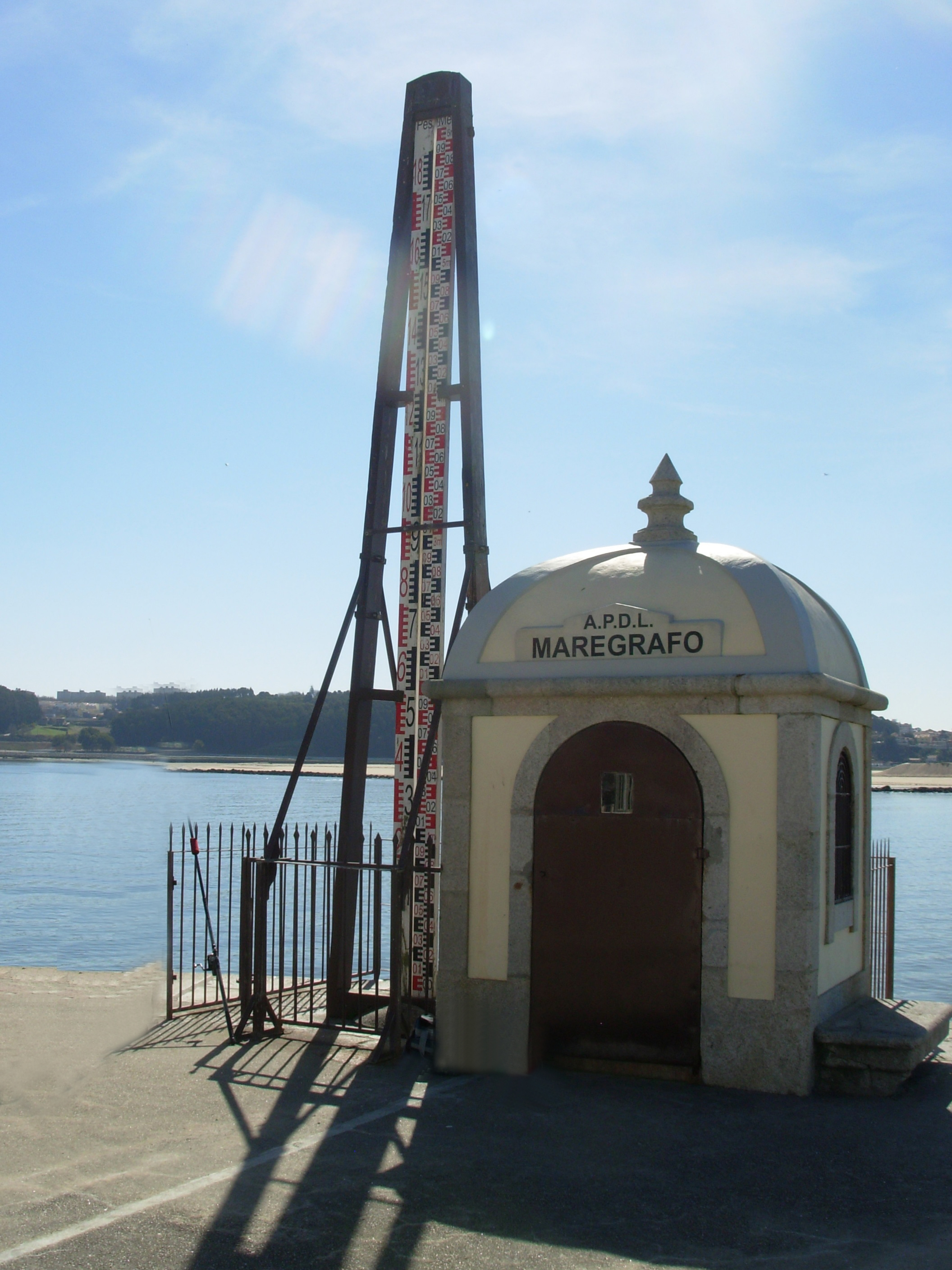 Tide gauge in Douro river estuary, Oporto city, Portugal.